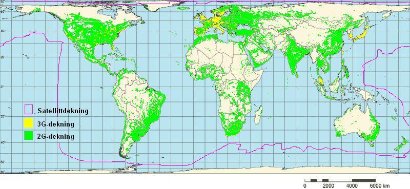 GSMA Mobile coverage map of the world